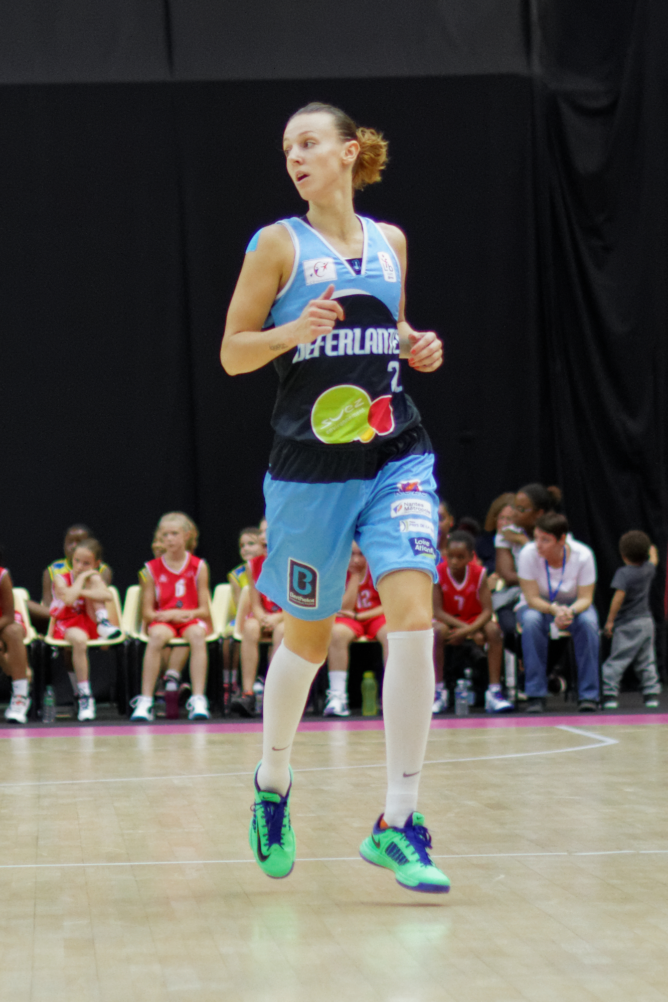 Open LFB, Hainaut Basket-Nantes Rezé, October 6th, 2013.